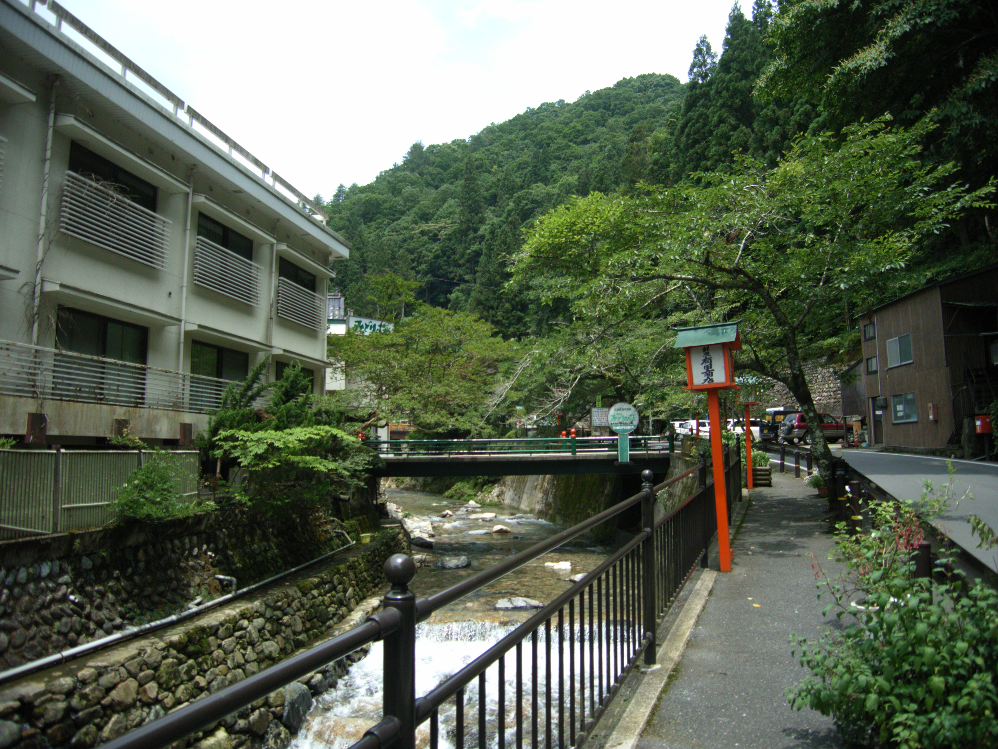 Yuki Onsen in Saeki-ku, Hiroshima, Japan.